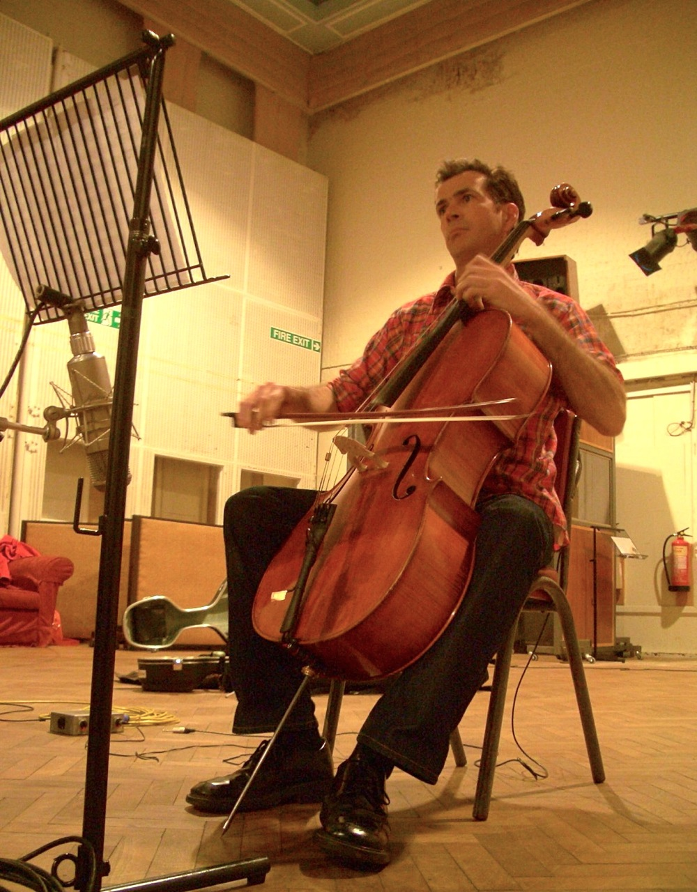 Richard Dodd Cellist recording at Abbey Road Studios for the band Pugwash.